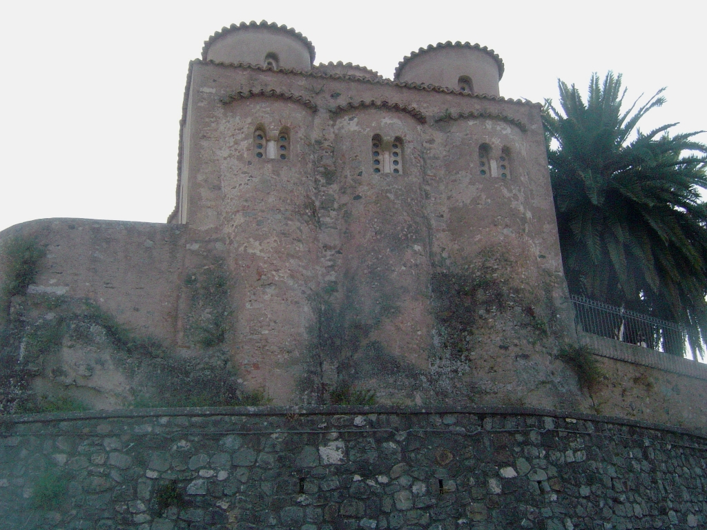 Church of San Marco, Rossano, Italy